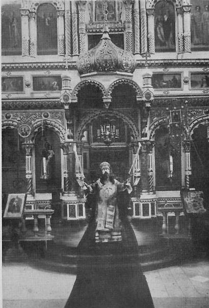 Metropolitan Evlogii (Georgievski) at a church in Kolma.